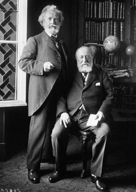 French astronomer Camille Flammarion (1842-1925), standing, and French composer Camille Saint-Saëns (1835-1921), seated, in Flammarion's study in 1921.